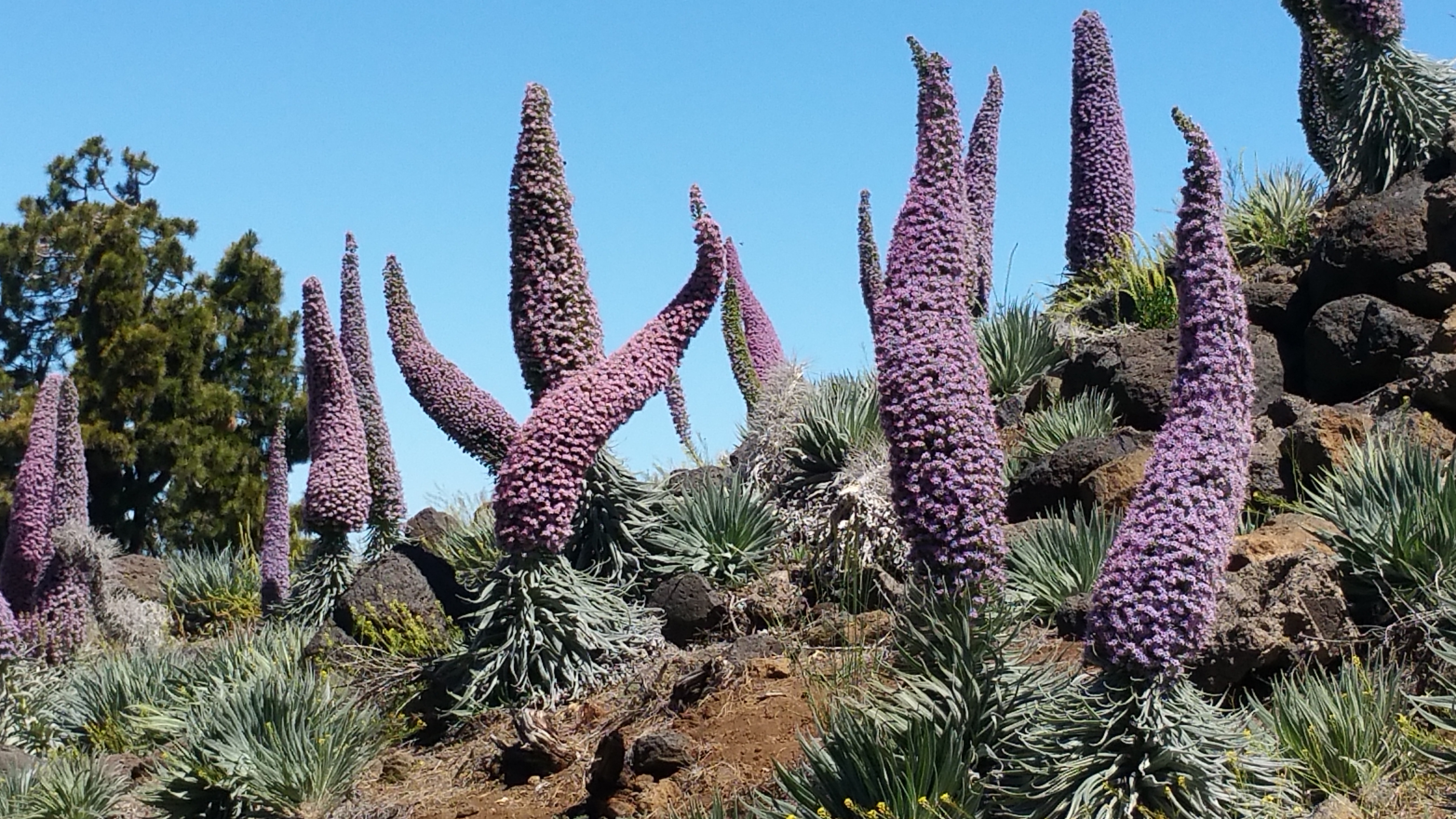 Echium wildpretii on Roque de los Muchachos - La Palma - at 2000 meters